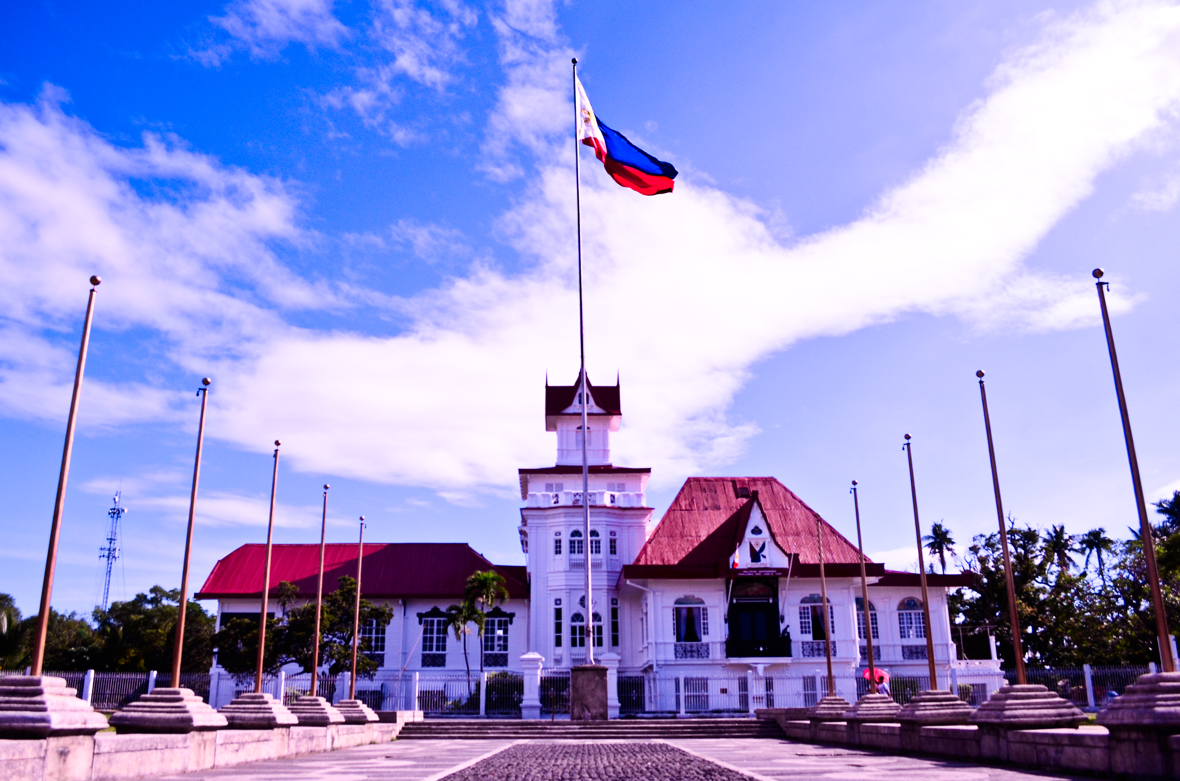 An overview of the Aguinaldo Shrine.